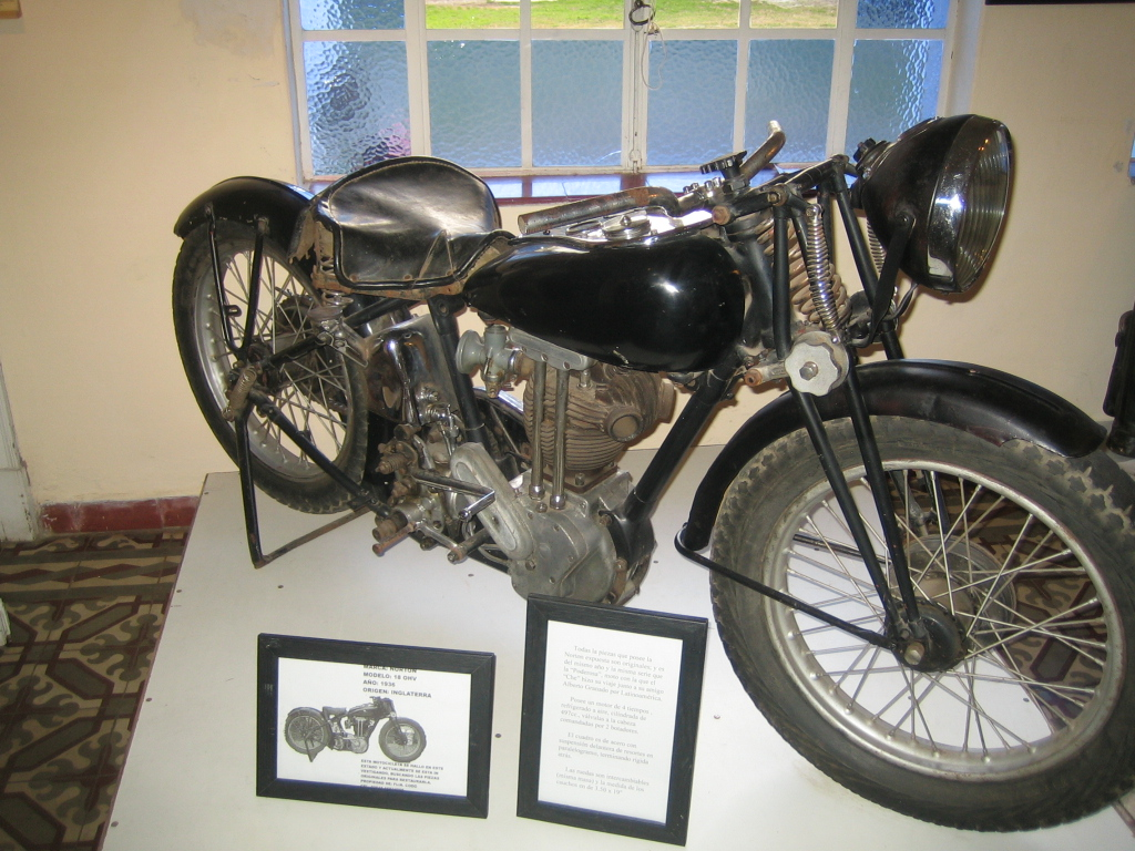 House-museum "Che" Guevara - Alta Gracia - Argentina